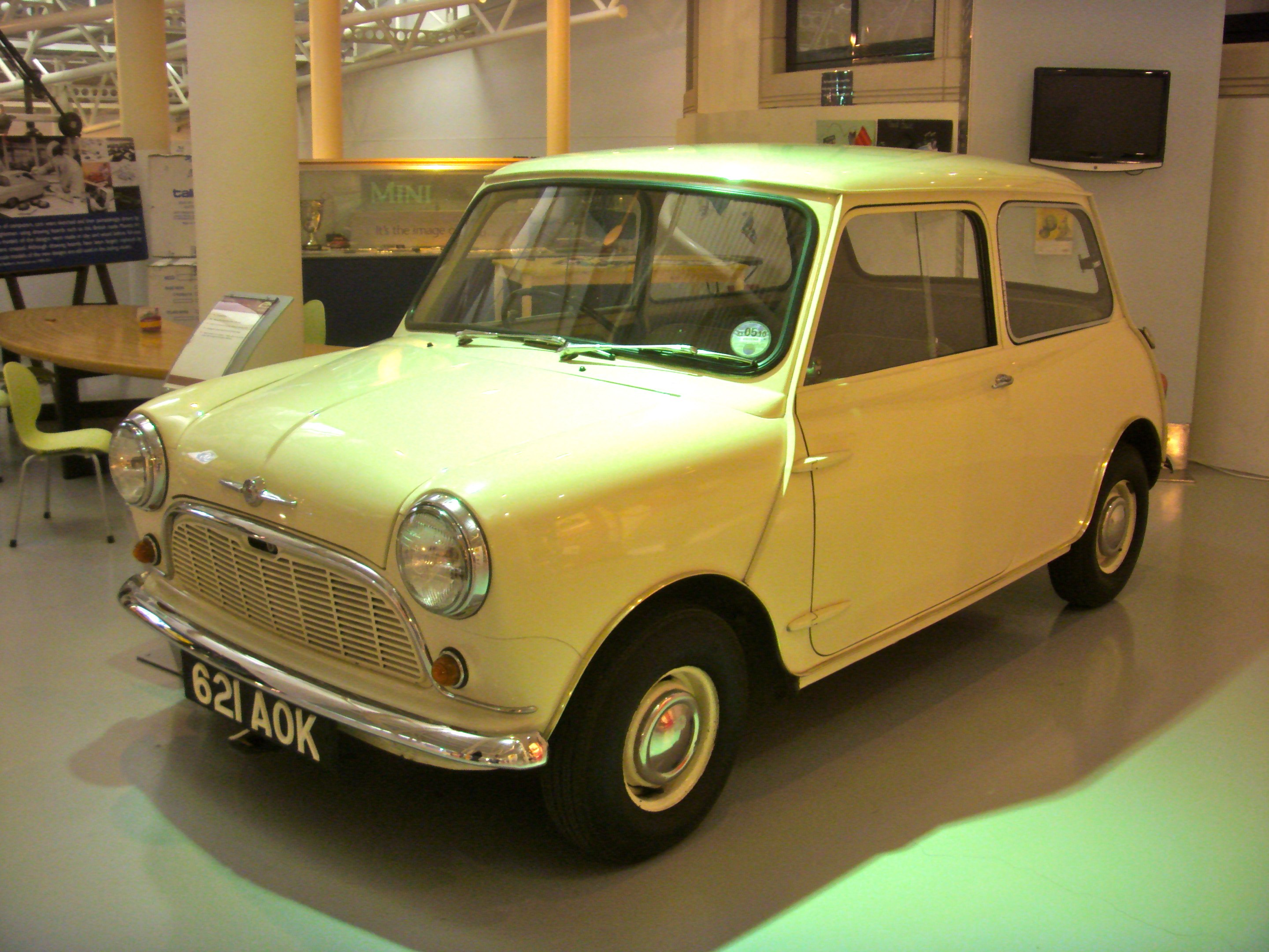 First production Mini-Minor off the line.